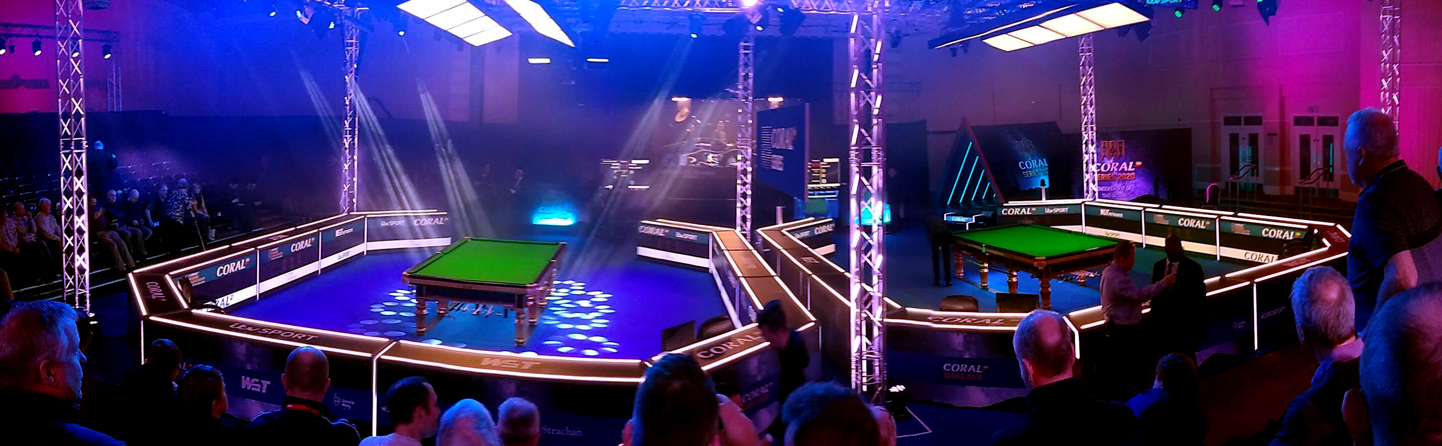 Tonight was a bit different as one of my Christmas presents came into play - tickets for the first night of the Coral Players' Championship snooker tournament which this year is in Southport. It meant diving straight from work, via Tesco for a butty, but we got a winning run and were there in good time. Being the first night it was a two table setup, with table 2 running Maguire and Ding, and the main event on table 1 was full marks - Williams and Selby. Unfortunately Mark Williams was having no luck at all tonight, and while the whitewash 6-0 result doesn't really reflect the match, it wasn't that far from it. We waved at Stephen Hendry in the TV box, but I think we could have lived without the smoke machine. The first five minutes of the first frame were played in a light mist!